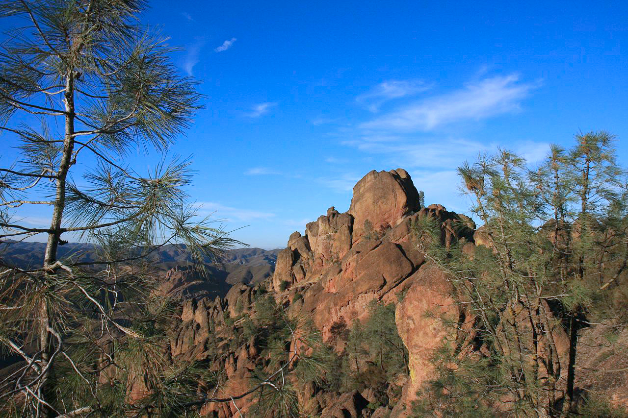 Gray Pine Pinus sabiniana, Pinnacles National Monument, California.